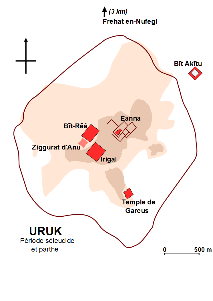 Simplified plan of Uruk during the Seleucid and Parthian period, with locations of the main temples.